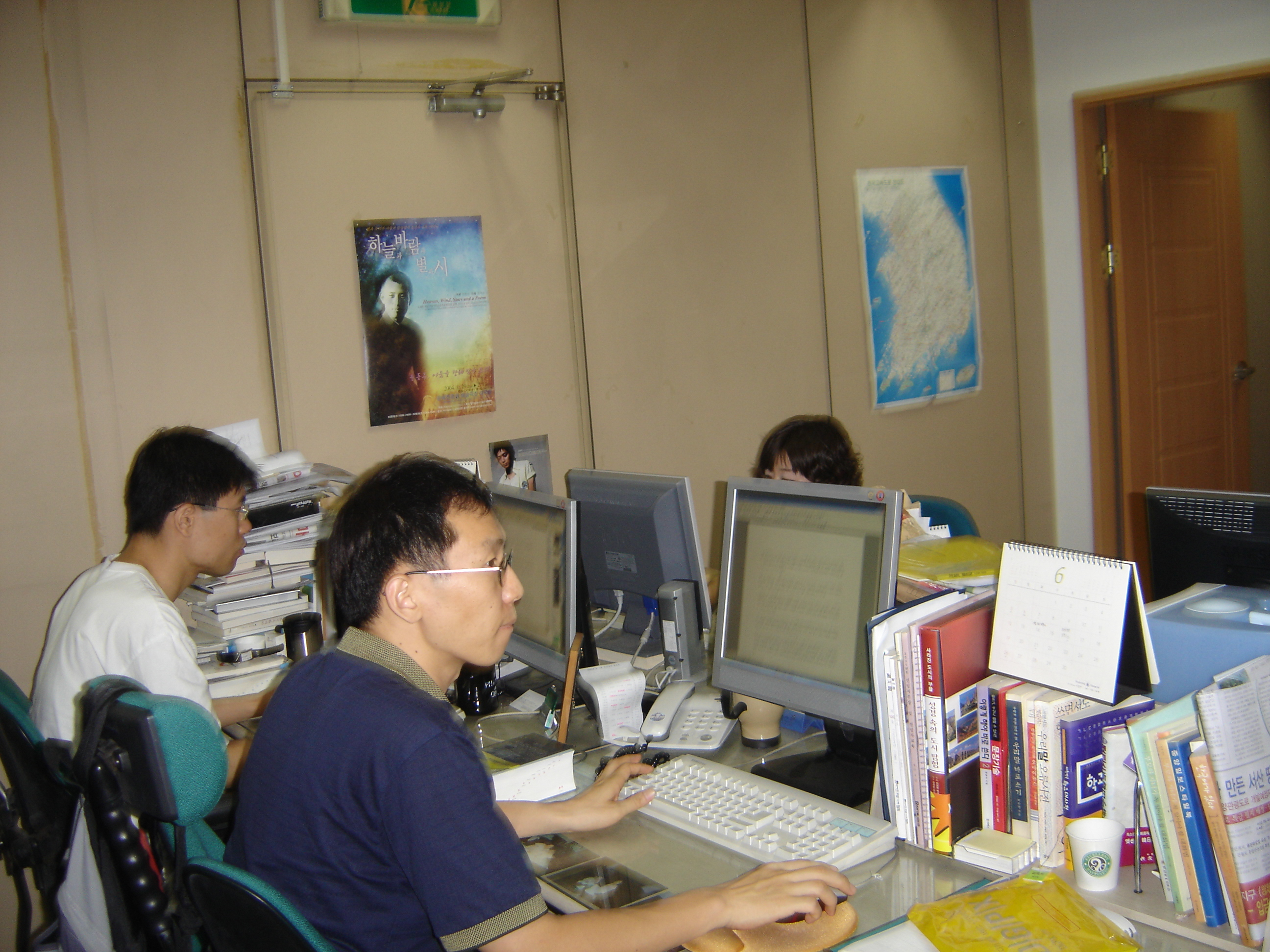 OhmyNews writers in the news room in Seoul, South Korea.